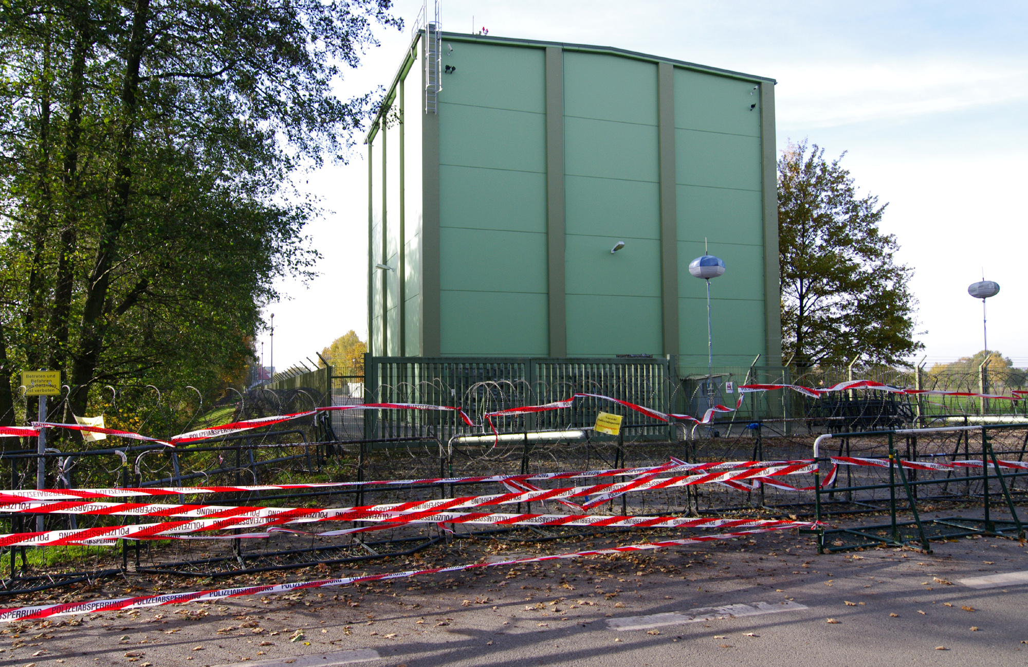 Backside of the "loading station" near Dannenberg, district Lüchow-Dannenberg (Germany). In the building, there is a special crane to be the "Castor" containers – or containers of highly radioactive nuclear waste from other construction – transferred from the railway to lorries. (Before that they were brought here by train from the reprocessing plant at La Hague, France). From Dannenberg, the lorries are driven about 20 kilometers over country roads and pass through villages to the interim storage facility for German highly radioactive nuclear waste near Gorleben. The twelfth "Castor" transport since 1995, consisting of eleven other nuclear waste containers, has reached Gorleben in November 2010. This increased the number of containers at the intermediate storage to 102. The transport was accompanied by massive protests of the local population and anti-nuclear activists from all over Germany, so it had to be enforced by 21,000 police officers.